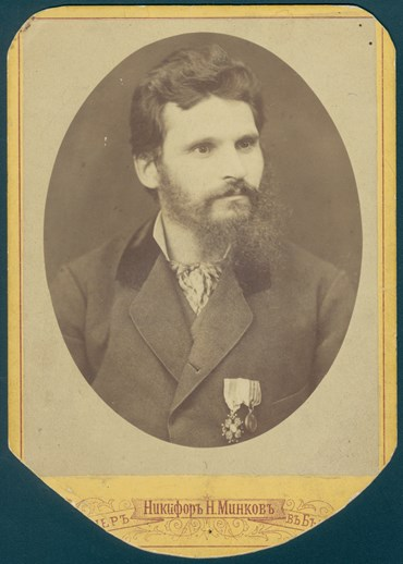 Bulgarian opinion journalism Mihail Grekov